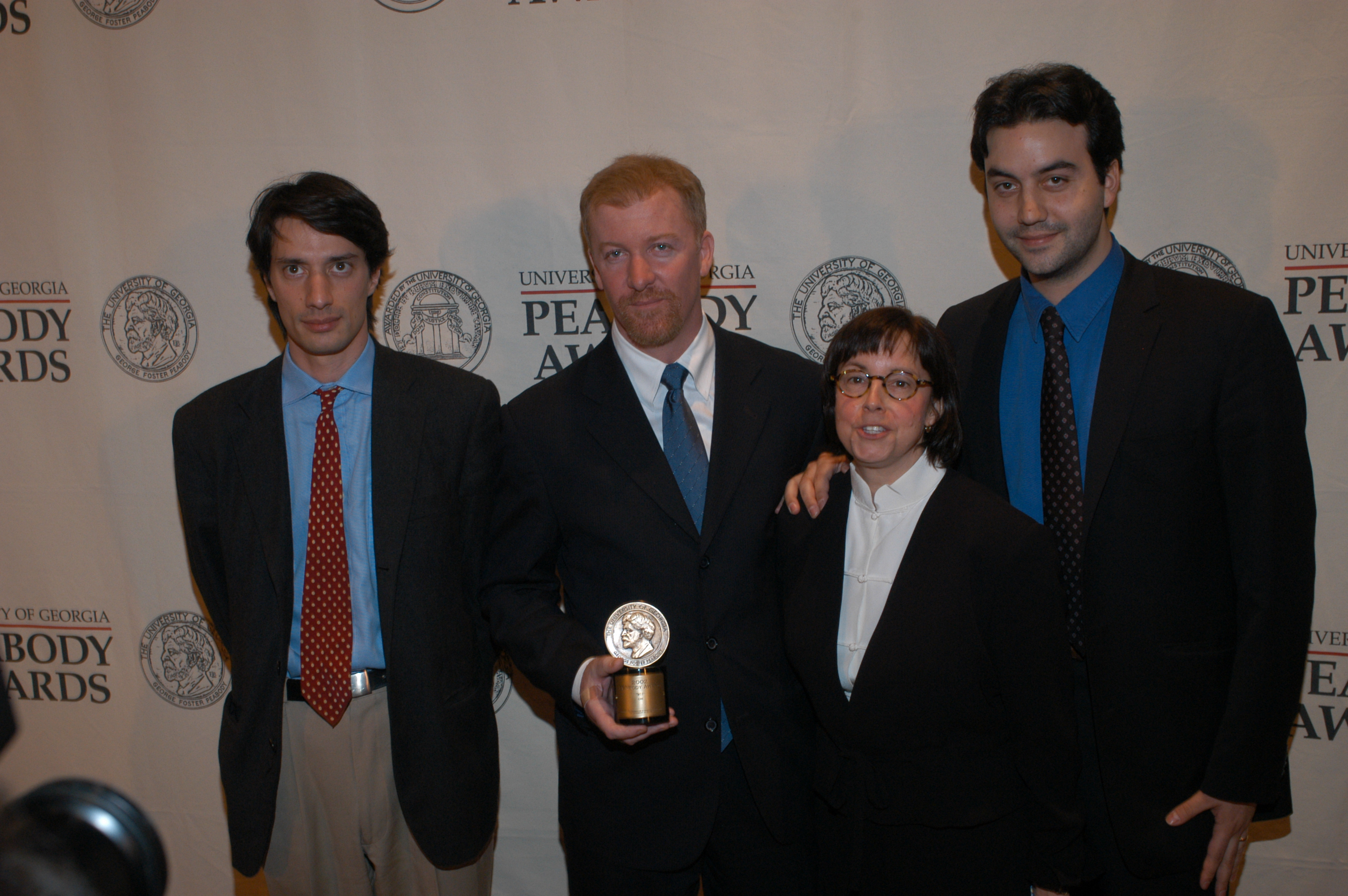 PHOTO CREDIT: ANDERS KRUSBERG / PEABODY AWARDS Gédéon Naudet, James Hanlon, Susan Zirinsky and Jules Naudet at 62nd Annual Peabody Awards Luncheon Waldorf=Astoria Hotel May 19, 2003